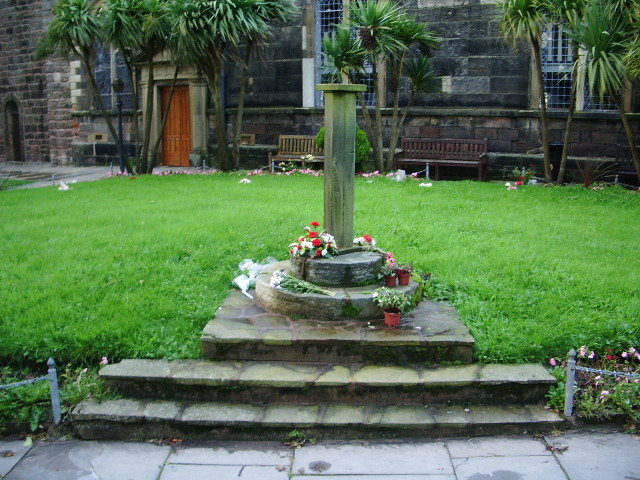 St Chad's Church, Poulton-le-Fylde, Preaching Stone, near to Poulton-le-Fylde, Lancashire, Great Britain.